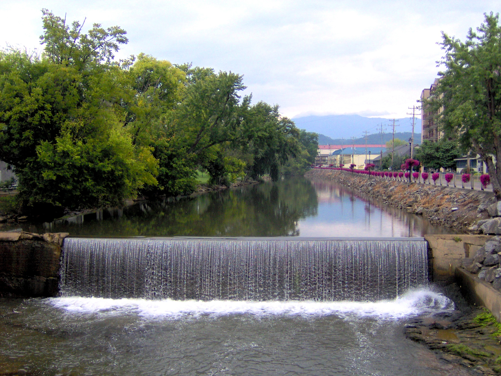 The mill dam of the Pigeon Forge Mill, or Old Mill, along the West Fork of the Little Pigeon River in Pigeon Forge, Tennessee, USA. The Great Smokies rise in the distance.